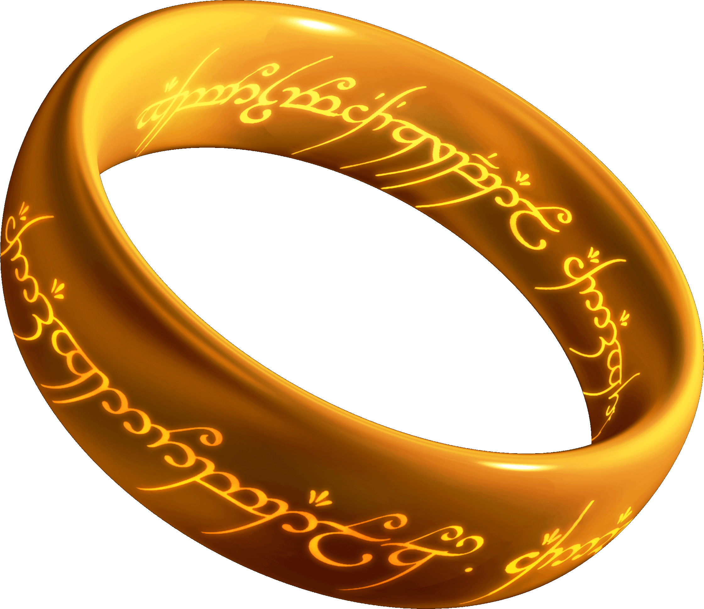 A 3D model of the One Ring